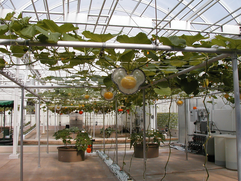 PB180051, Pumpkins being grown into a Mickey-shape at Epcot's "The Land" pavilion. Lake Buena Vista